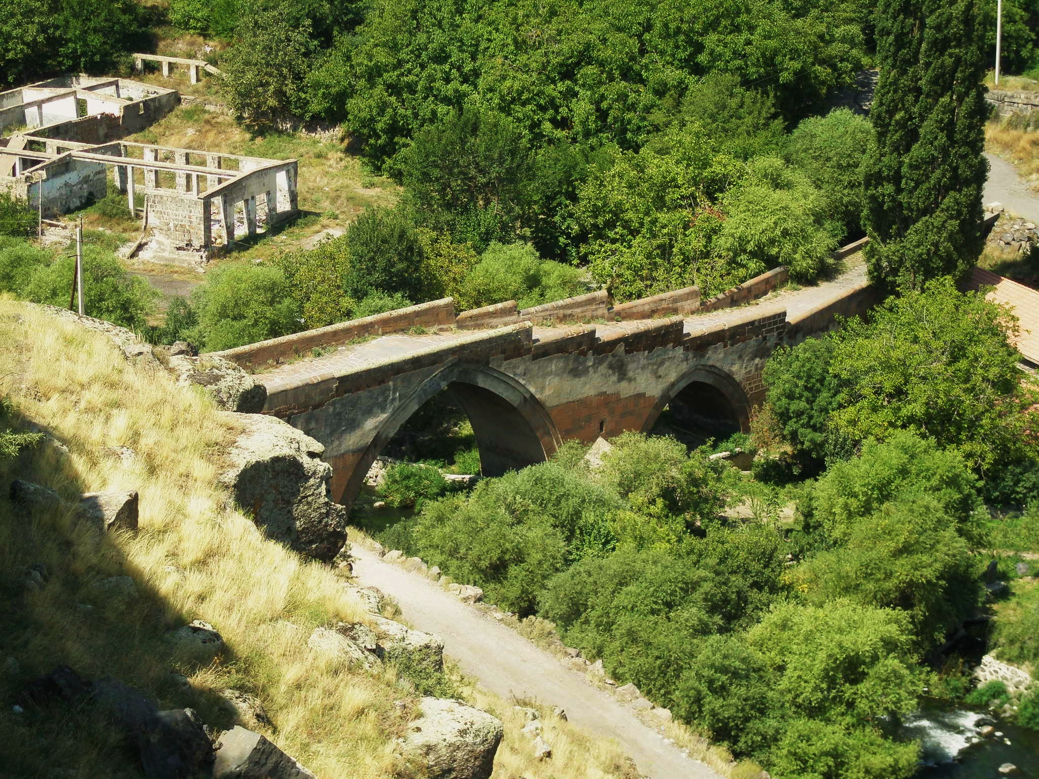 Ashtarak Bridge of 1664